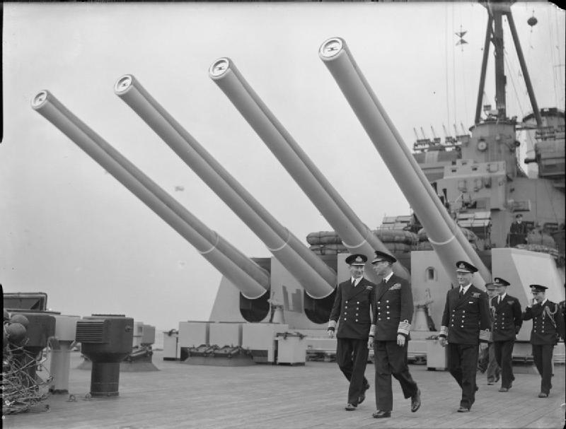 The Royal Navy during the Second World War HM King George VI with Captain C H L Woodhouse ( left), and Admiral Sir John Tovey (right), Commander in Chief, Home Fleet, walking beneath the four 14-inch guns of Y turret on board the battleship HMS HOWE during a visit to the Home Fleet at Scapa Flow.